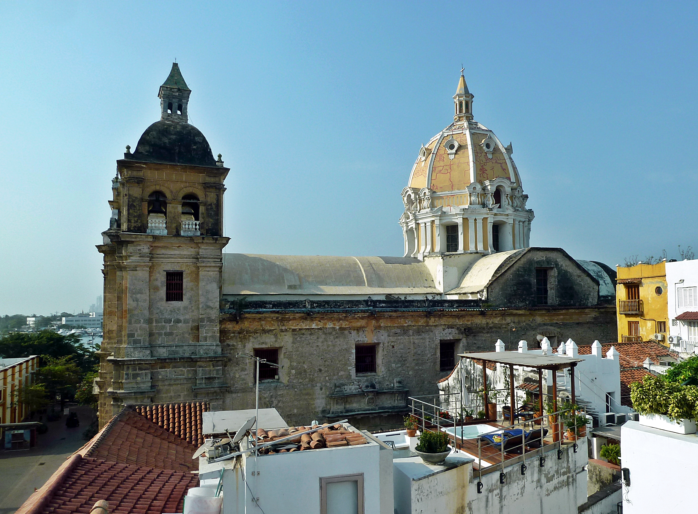 Iglesia de San Pedro Claver, Cartagena, Colombia.